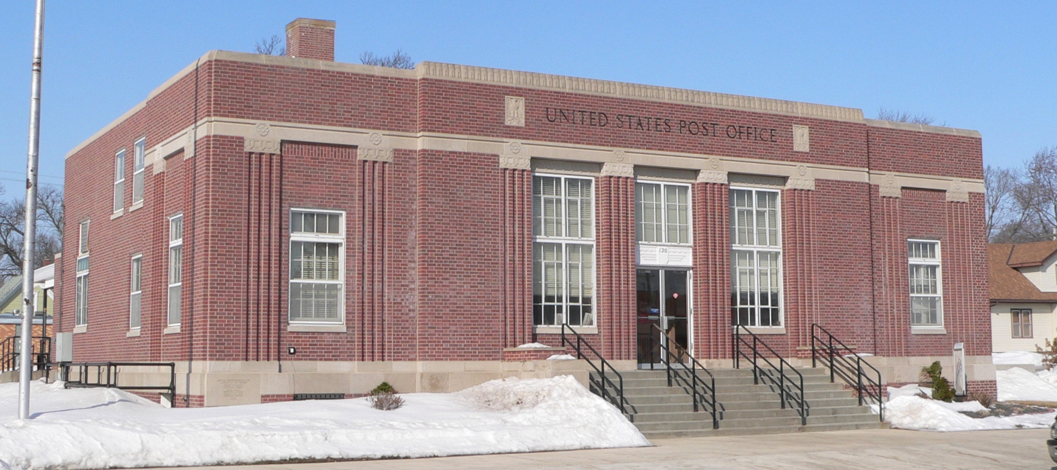 Post office in Wayne, Nebraska; seen from the southeast. The Art Deco building was designed by supervising architect Louis A. Simon and built in 1934. It is listed in the National Register of Historic Places.